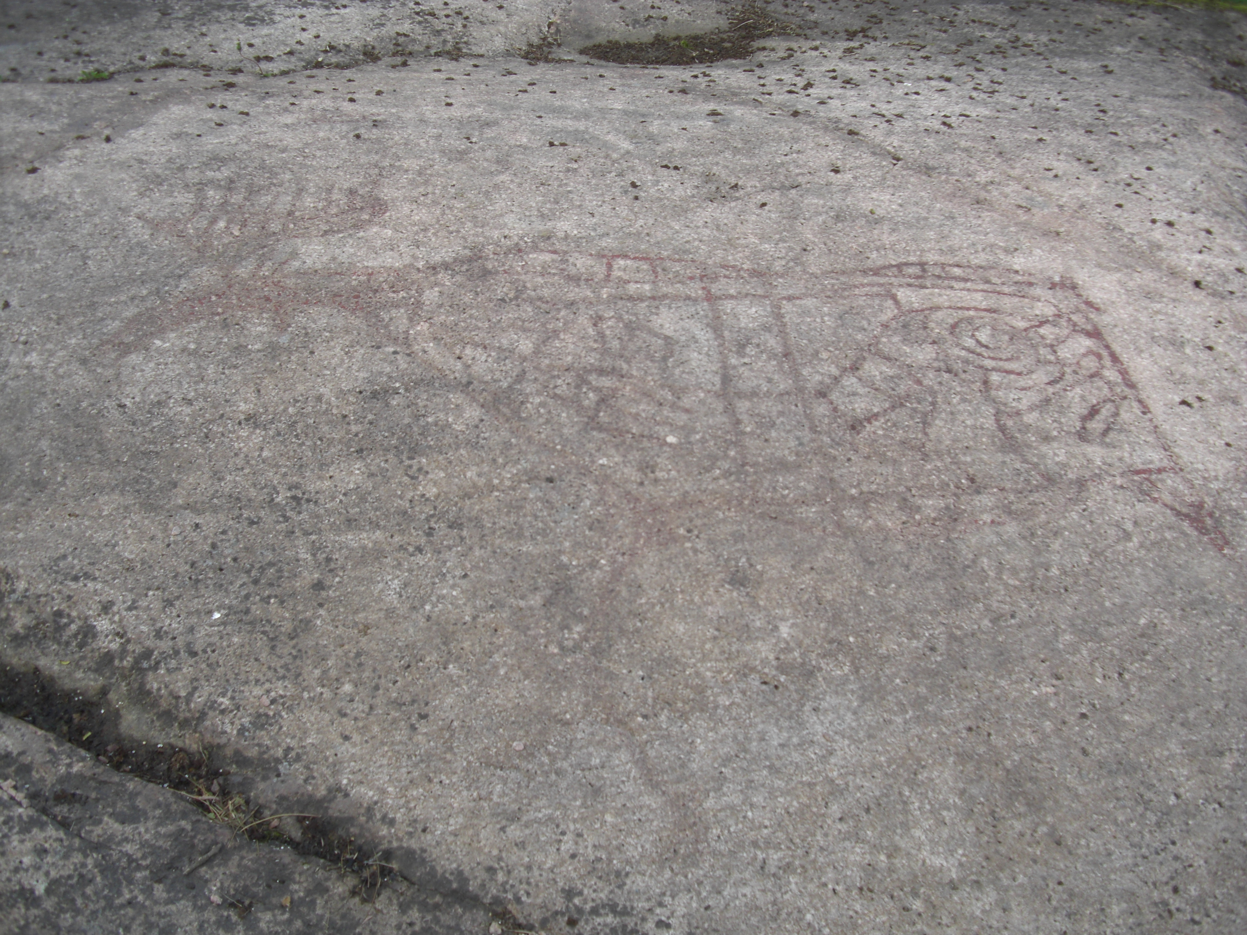 Elk carving, Åskollen